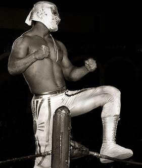 luchador Mistico, lucha libre